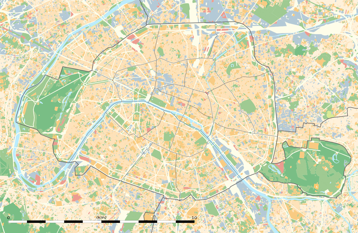 Blank land cover map of the city and department of Paris, France, as in January 2012, for geo-location purpose, with distinct boundaries for departments and arrondissements.